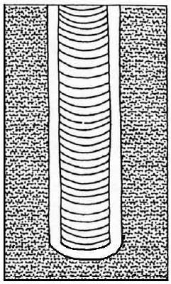 Drawing from Richter (1926) showing spreite in a Diplocraterion trace fossil. Flachseebeobachtungen zur Paläontologie und Geologie. XII-XIV". Senckenbergiana 8: p. 200-224.